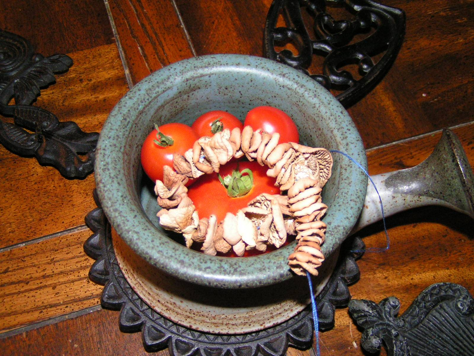 A string of 50 Fairy Ring (Marasmius oreades) Mushrooms with some tomatoes in the background.